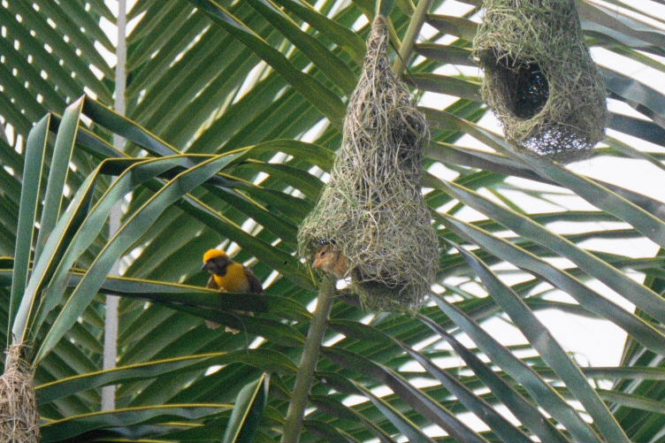 A weaver bird and its nests in western India.